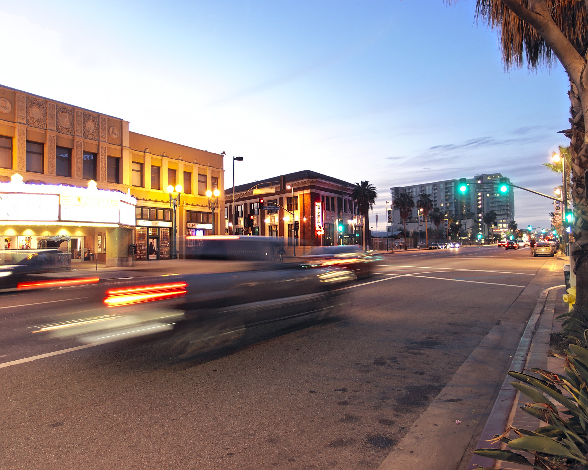 Looking north-west along Lankershim Boulevard after sunset in the "NoHo Arts District" of North Hollywood, Los Angeles, California.